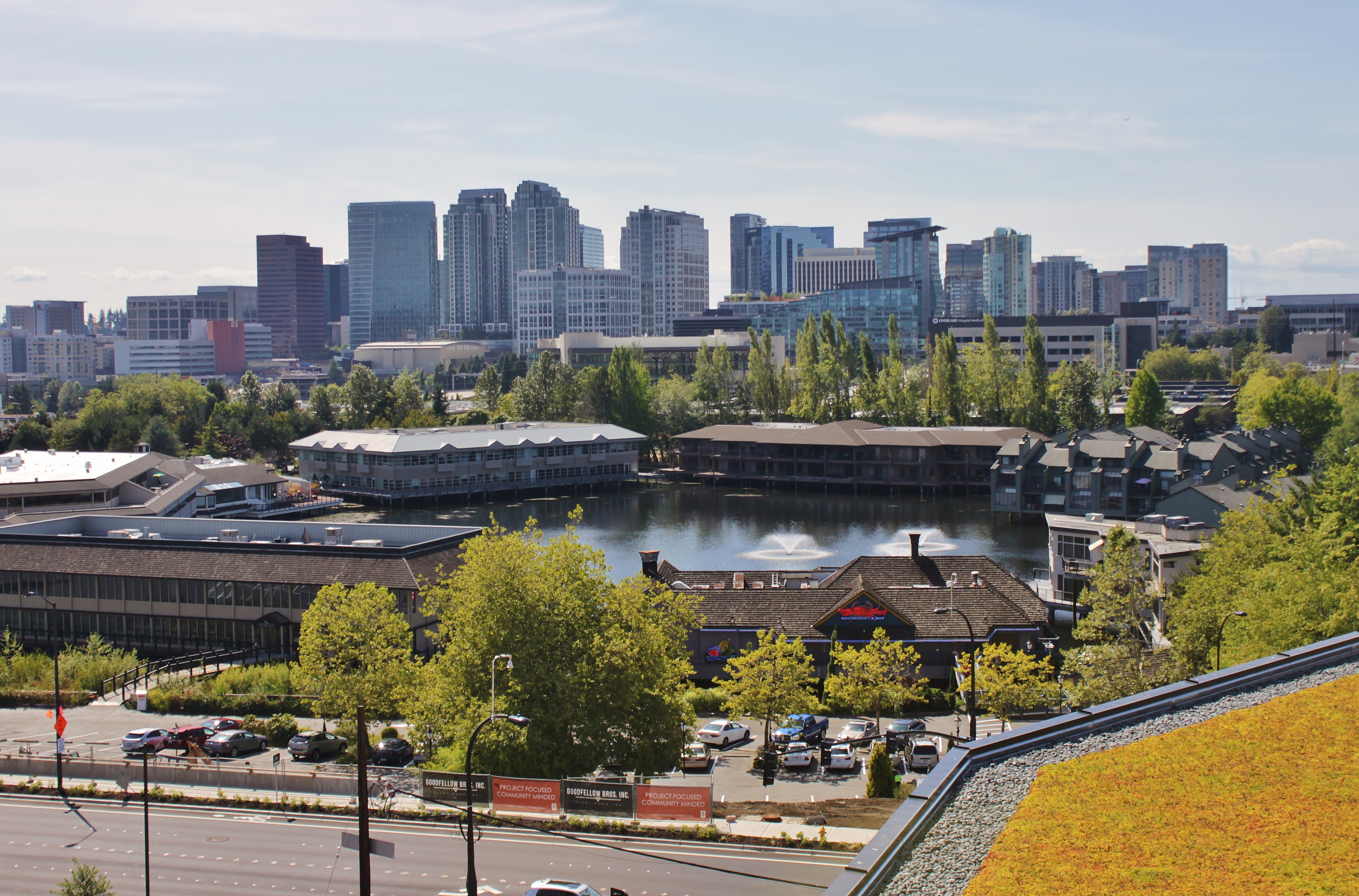 A view of the Downtown Bellevue skyline and Lake Bellevue, looking west from an apartment building in the Spring District.